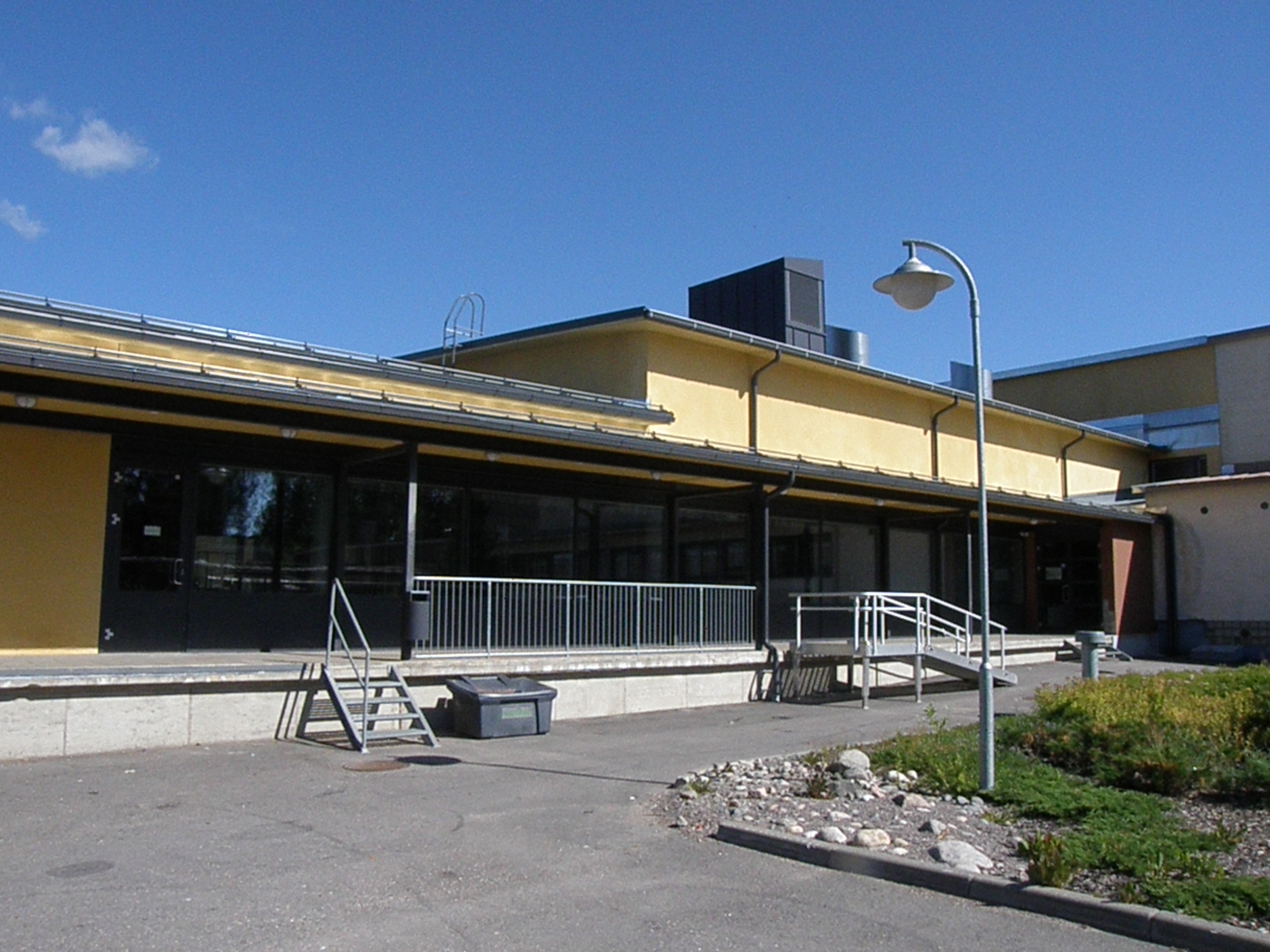 The Jokela High school yard, photograph taken on a sunny, hot day.